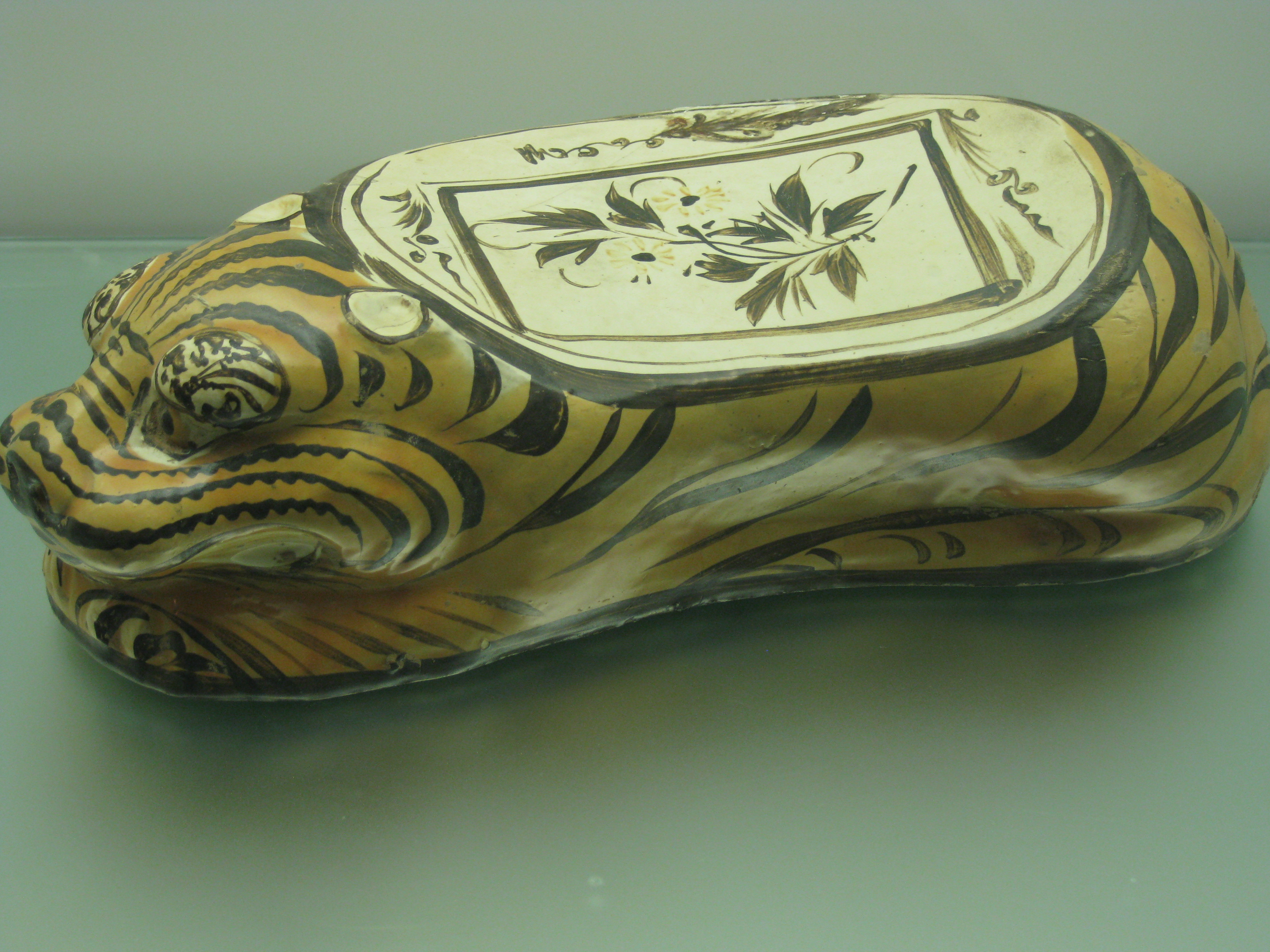 Exhibits in Hong Kong Museum of Art